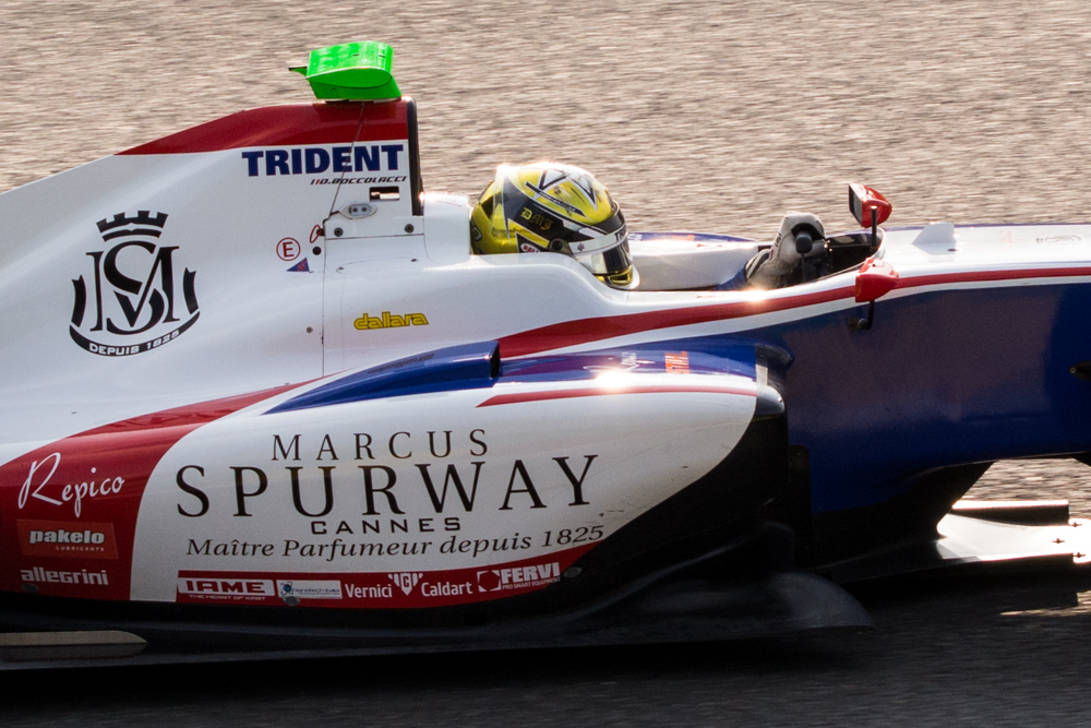 Dorian Boccolacci at GP3 race at Circuit de Spa-Francorchamps.